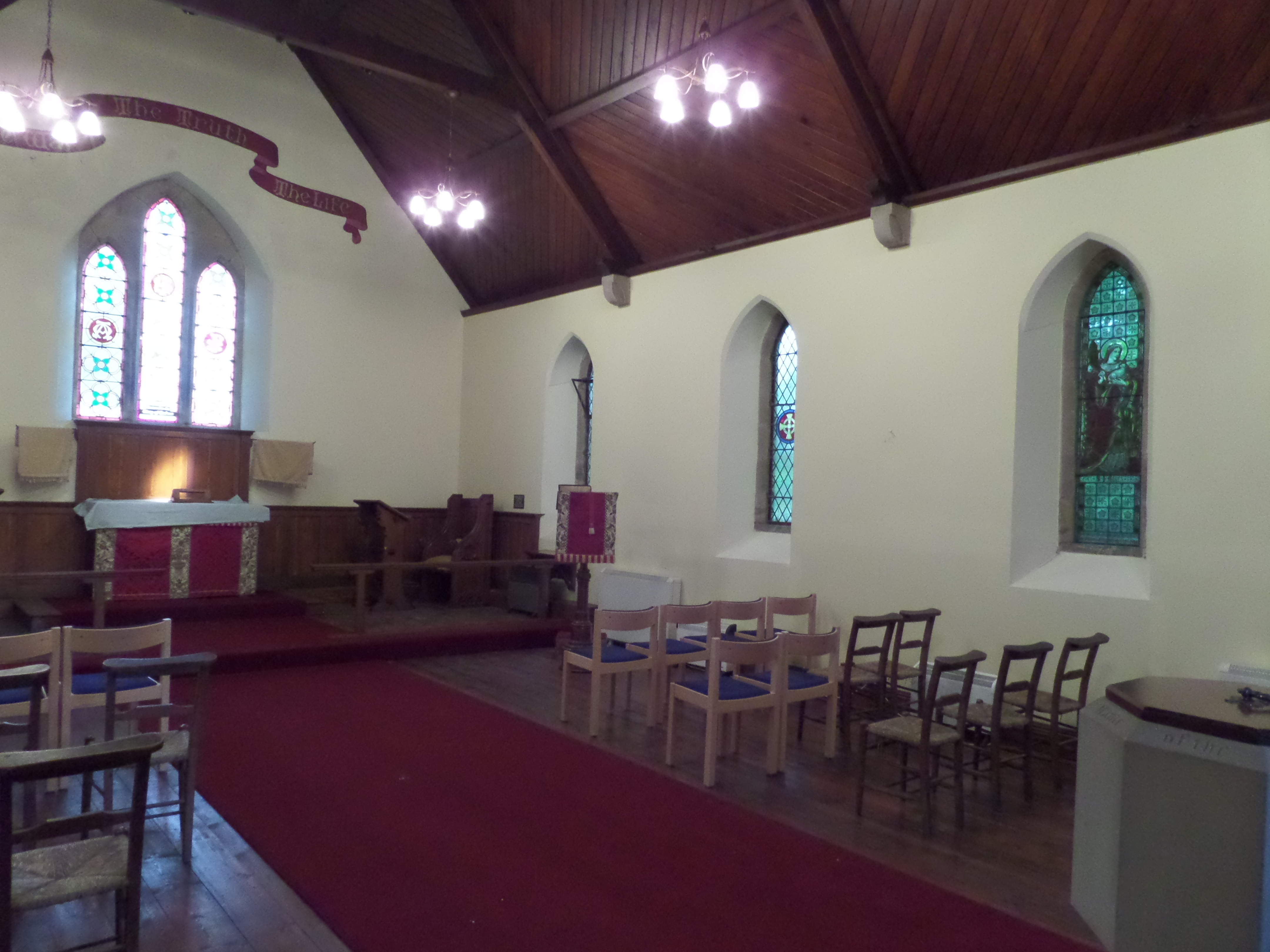 Inside Denwick Chapel, Northumberland, looking southeast